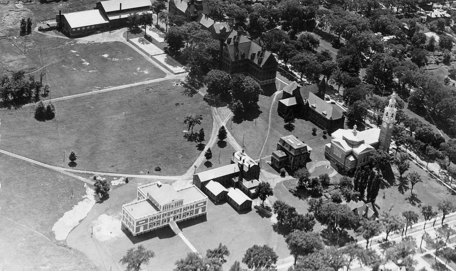 Aerial of the back of University Row at the University of Vermont, 1931. Ira Allen Chapel (far right), Fleming Museum (lower left), Billings Library, Williams Hall, & Old Mill (upper center).